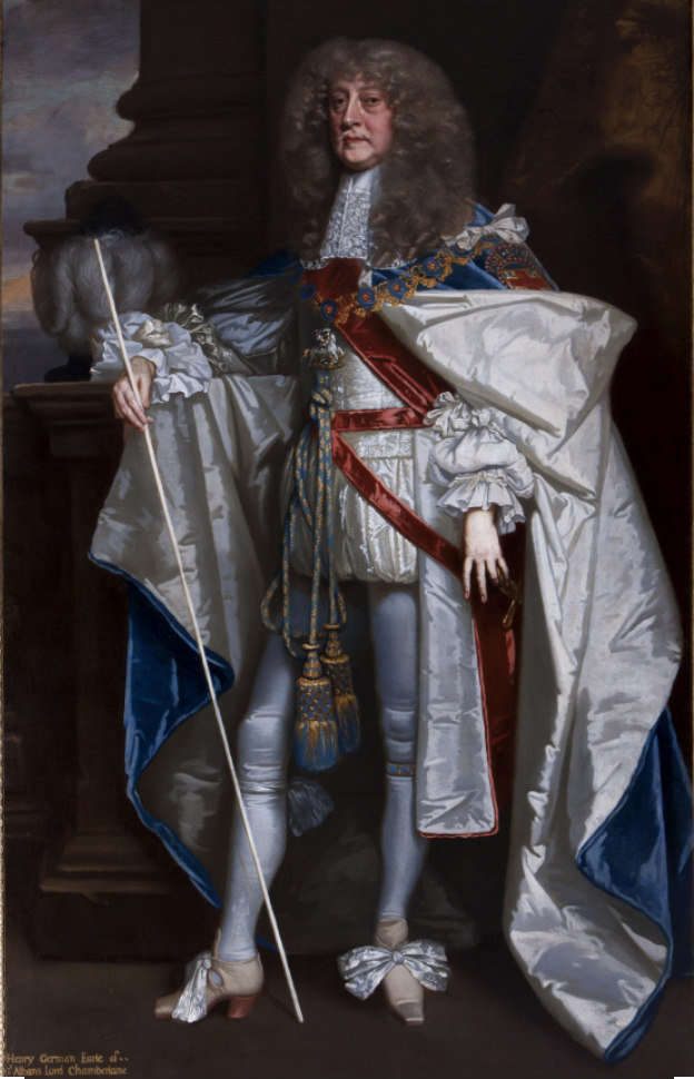 Depicted person: Henry Jermyn, 1st Earl of St Albans – English politician and courtier